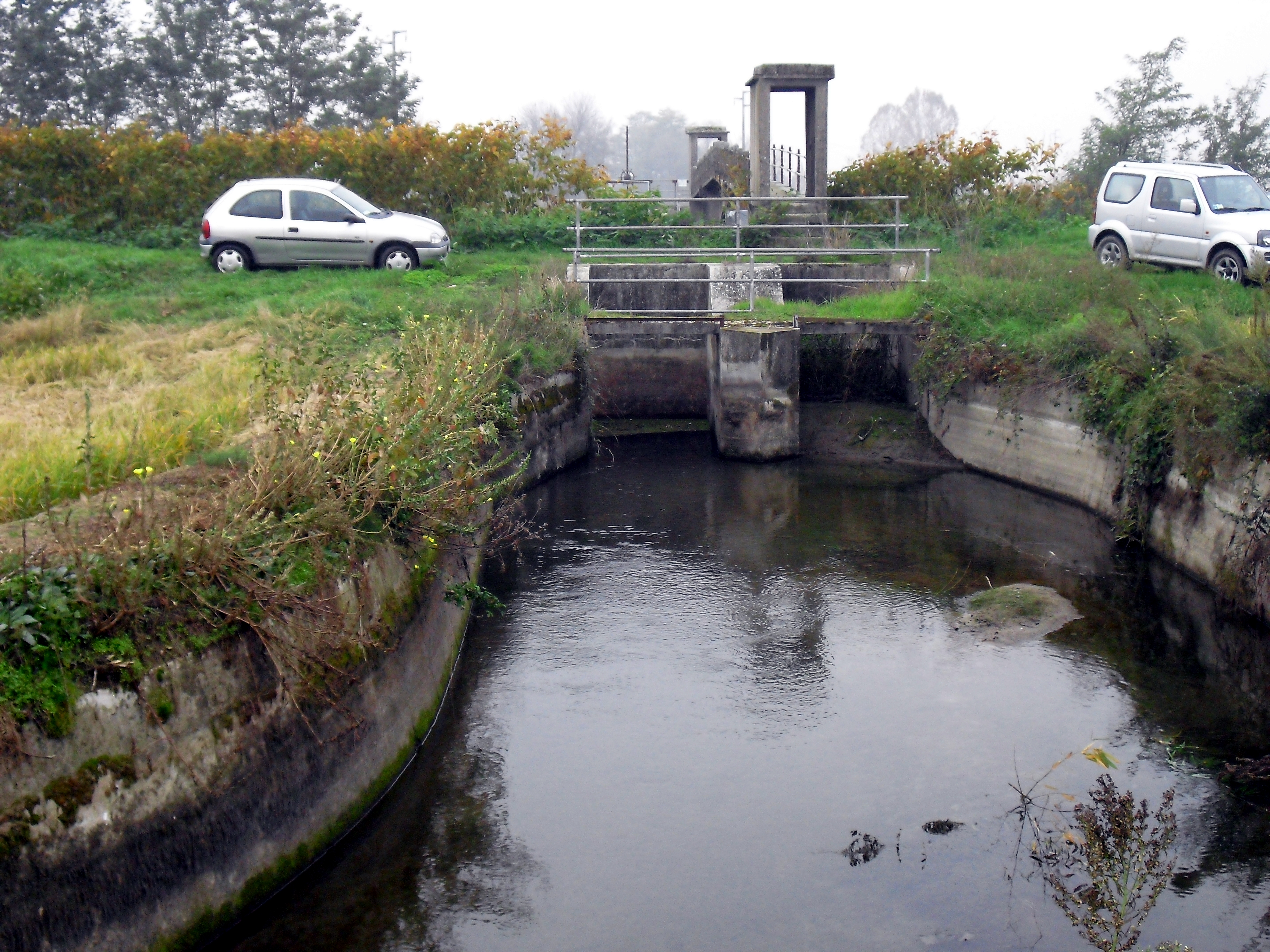 Cattedrale Channel